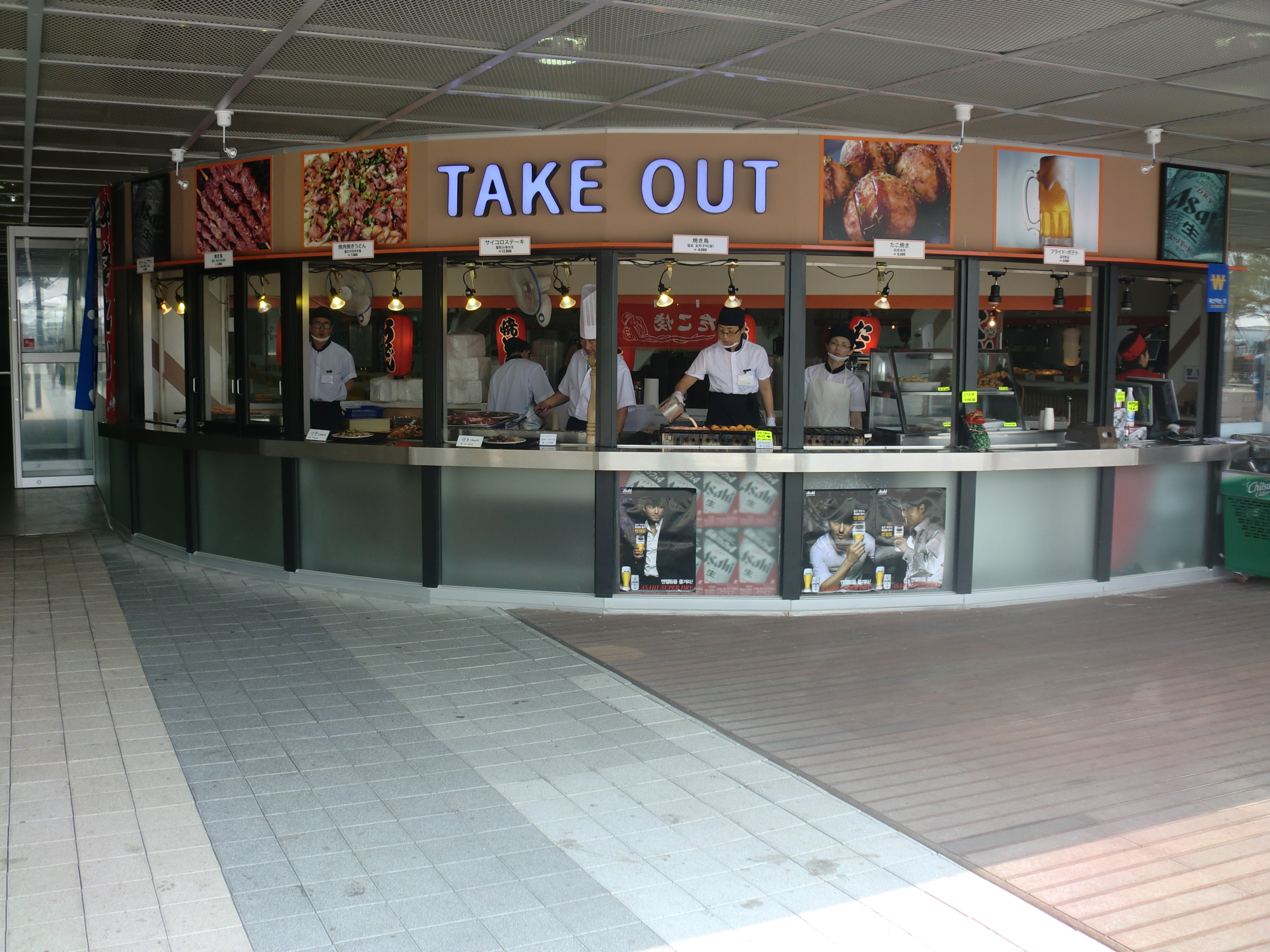 Expo 2012 Japan Food court